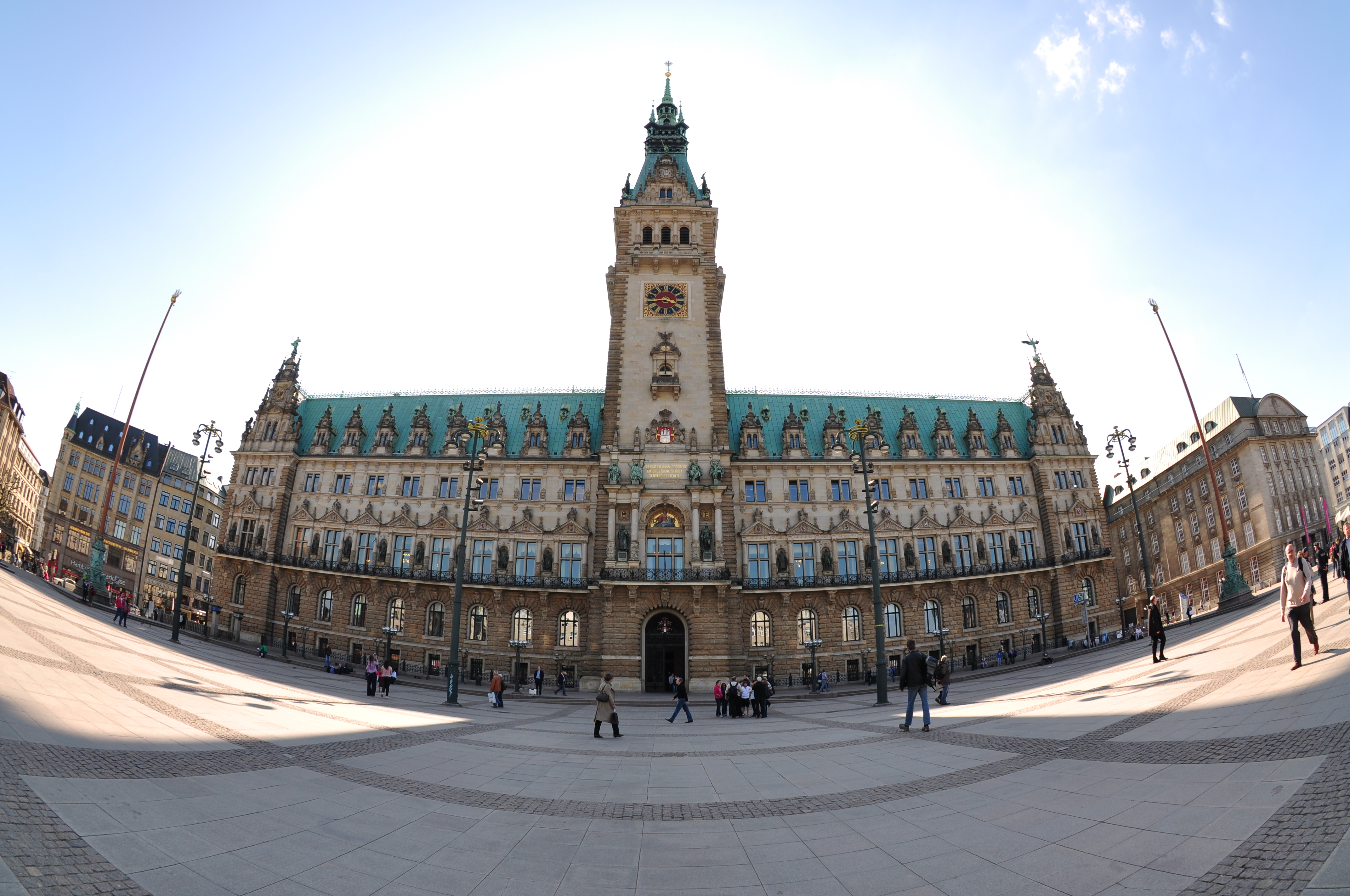 The city hall of Hamburg, Germany.